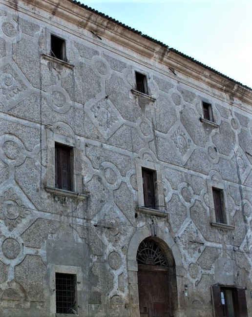 Facade of the Ducal Palace in Solopaca, Italy, built by Giovanni Antonio Ceva Grimaldi, 3rd Duke of Telese, between 1672 and 1682